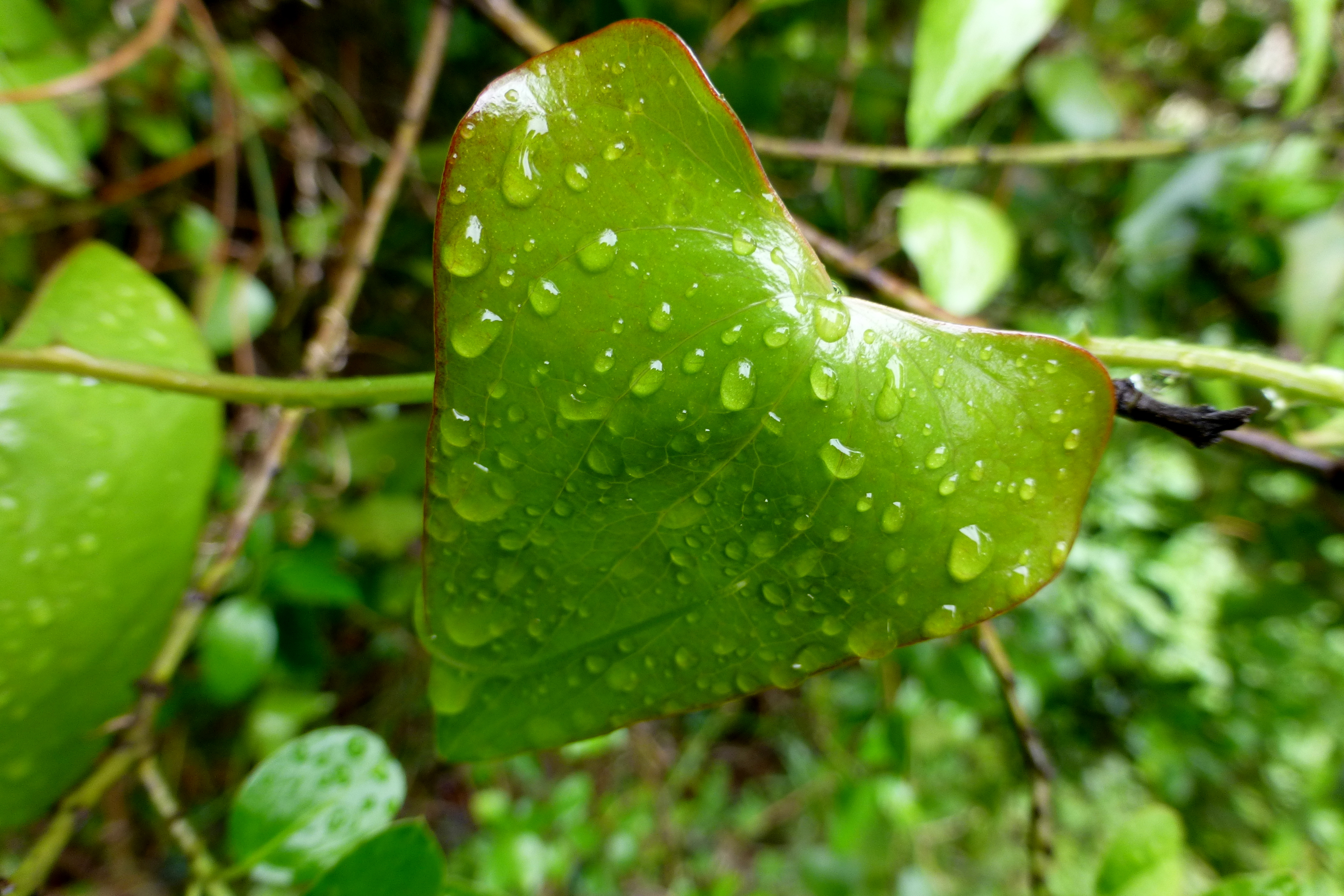 Water droplets on plants